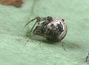 female Cryptachaea projectivulva from Okinawa.